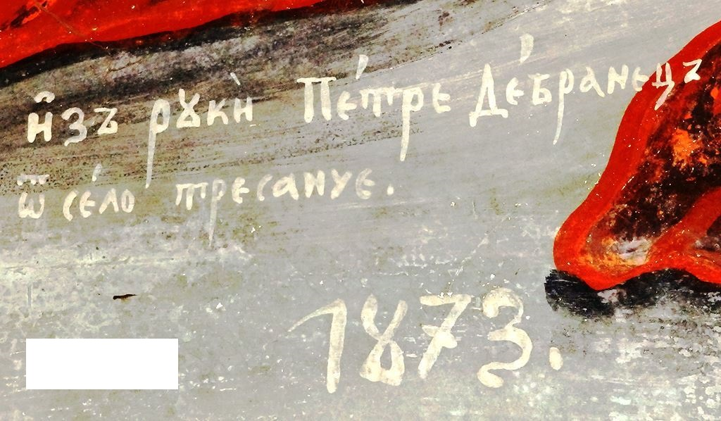 Fresco_in_Saint_Mary_Church_in_Fariš